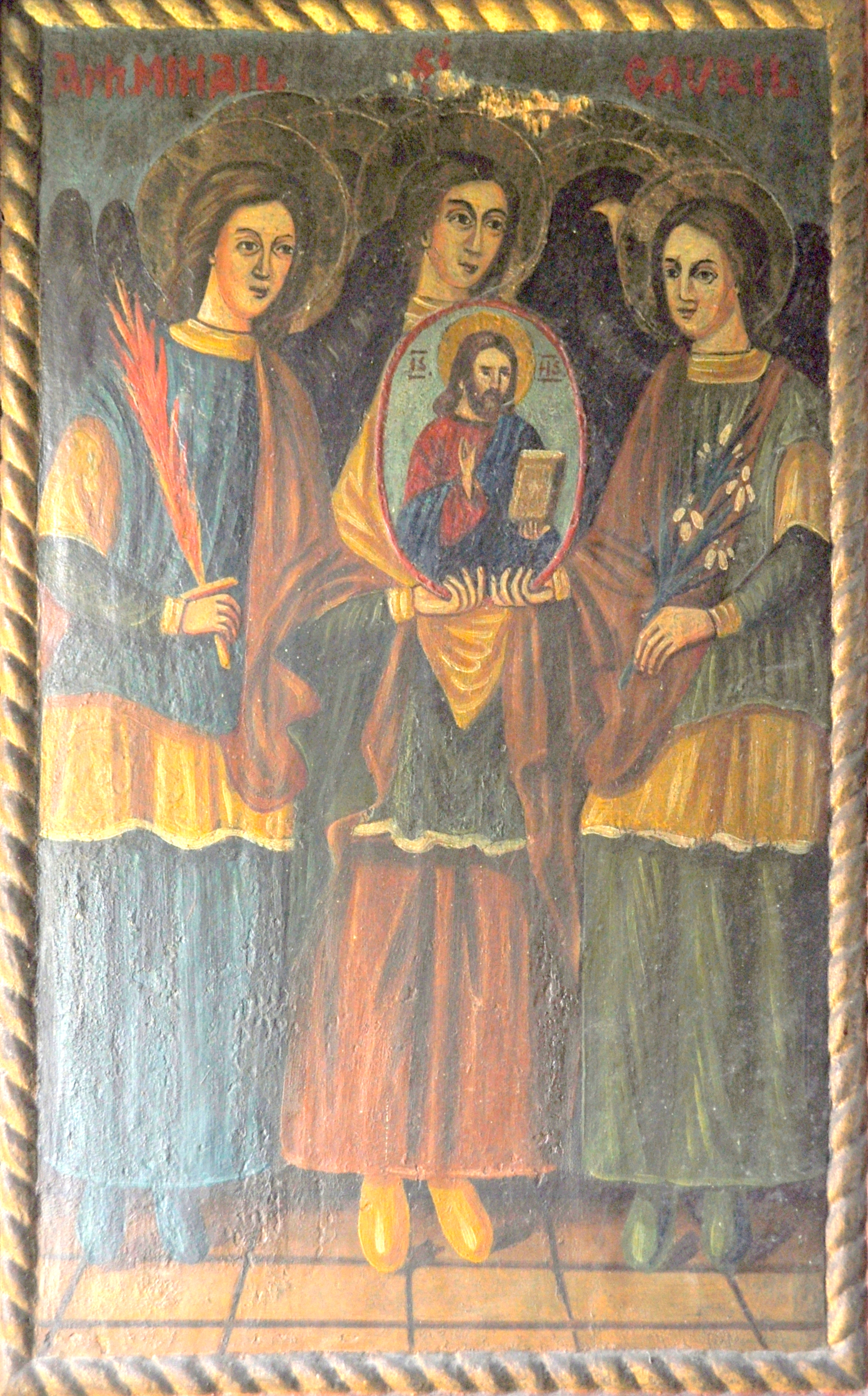 The wooden church in Stoboru, Sălaj county, RomaniaIcoană împărătească: Soborul Sfinților Arhangheli